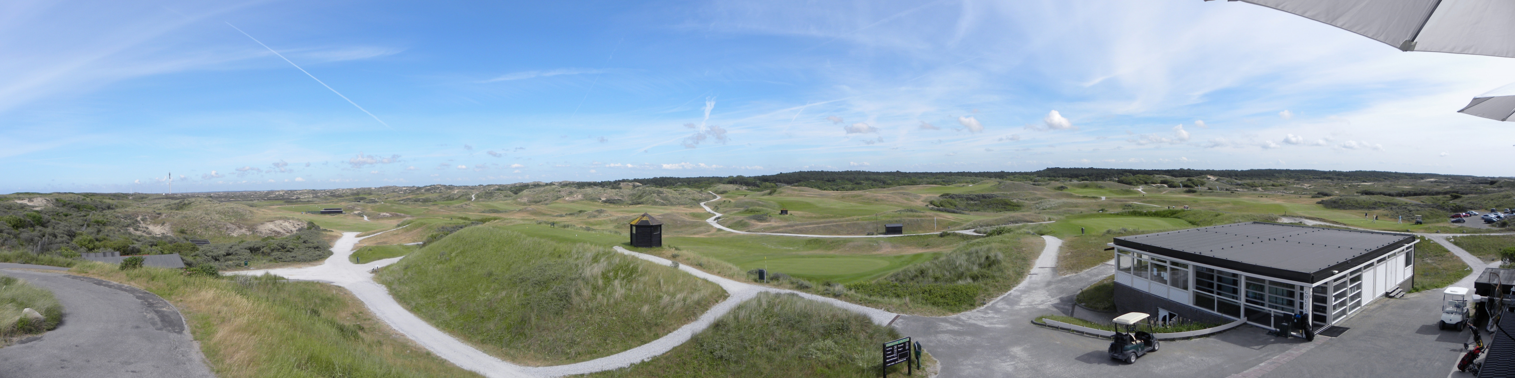 View of the golfcourse in Noordwijk